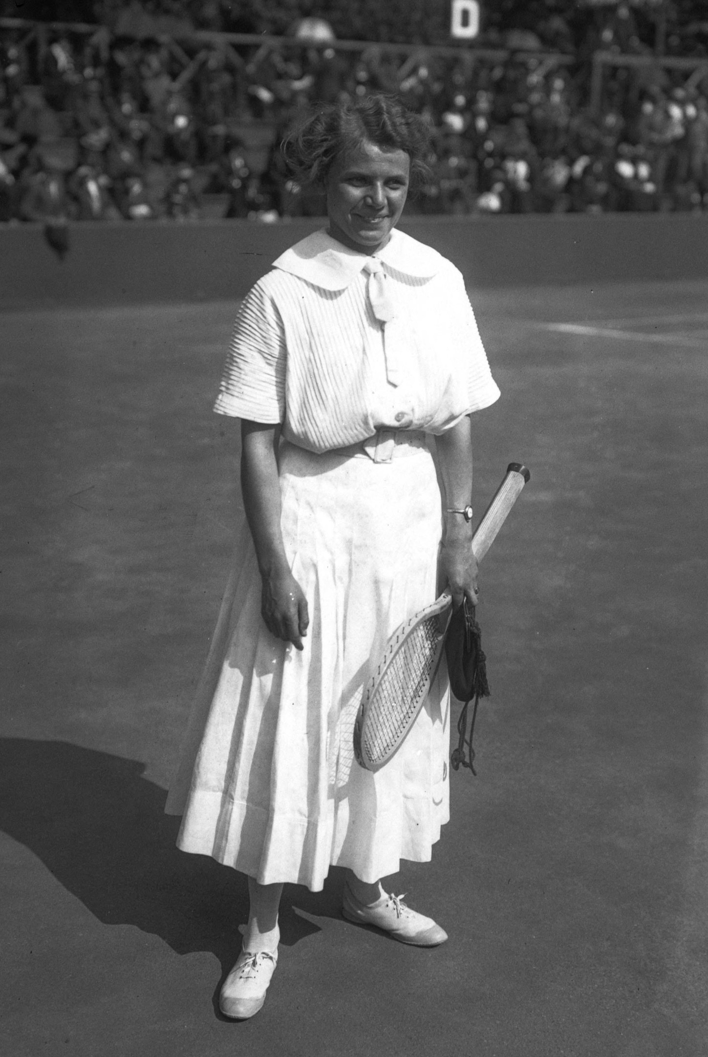 German tennis player Magdalene 'Mieke' Rieck. Probably at the 1912 World Hard Court Championships in Paris.